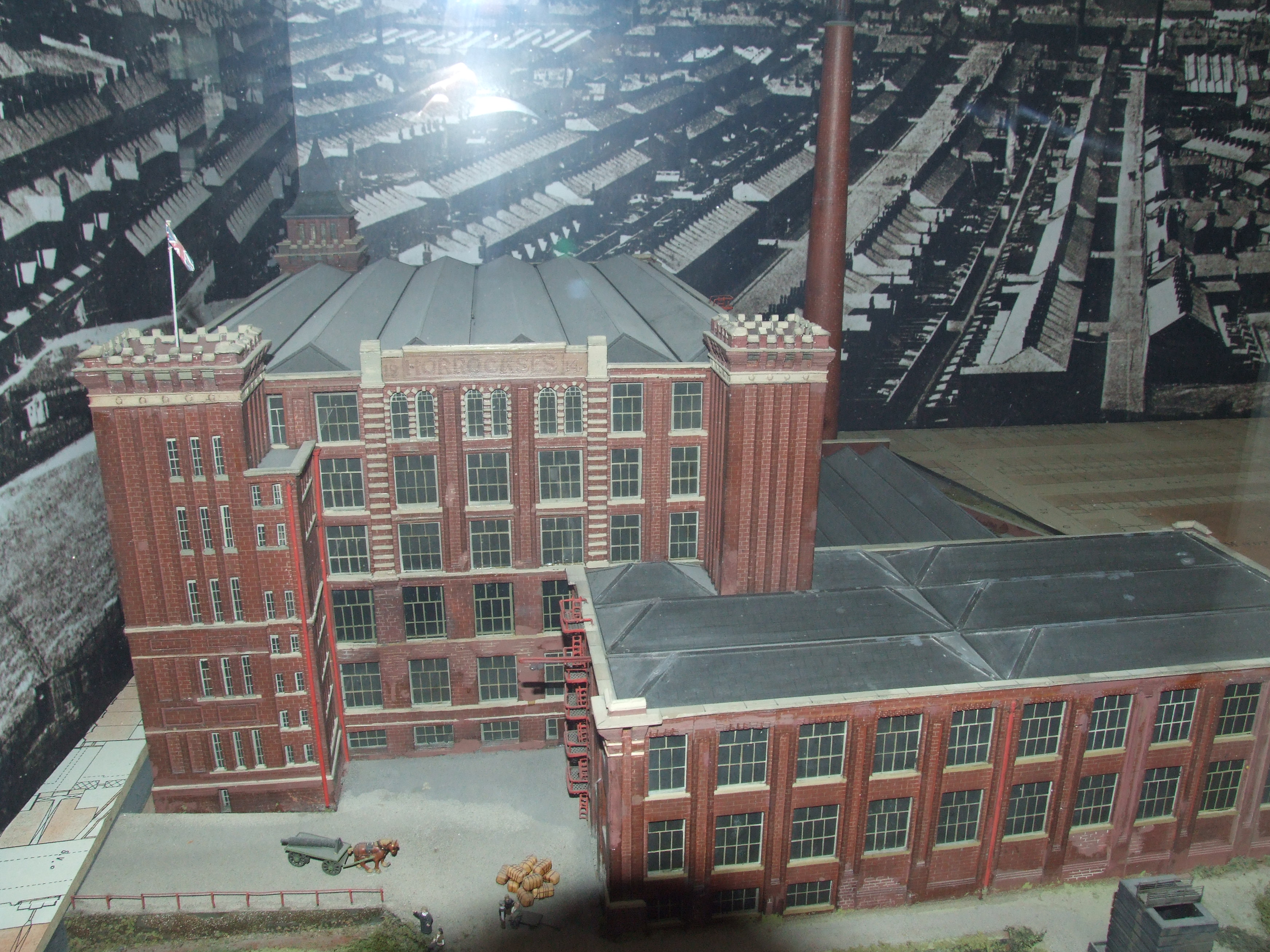 Helmshore Mills Textile Museum. - Google Maps - Google Earth Mill location Moses Gate, Farnworth, Bolton. SD7343706476